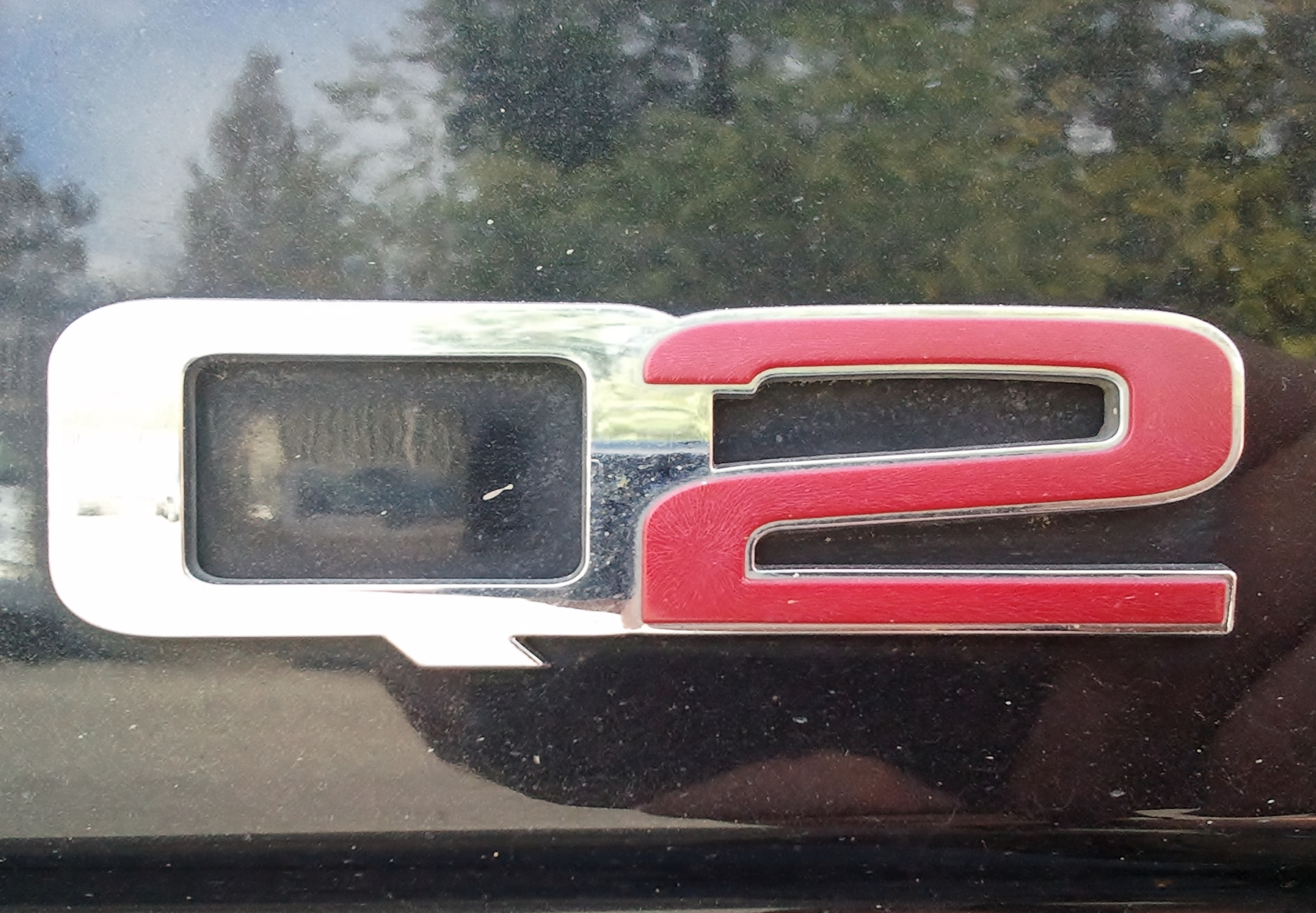 Alfa Romeo Q2 logo